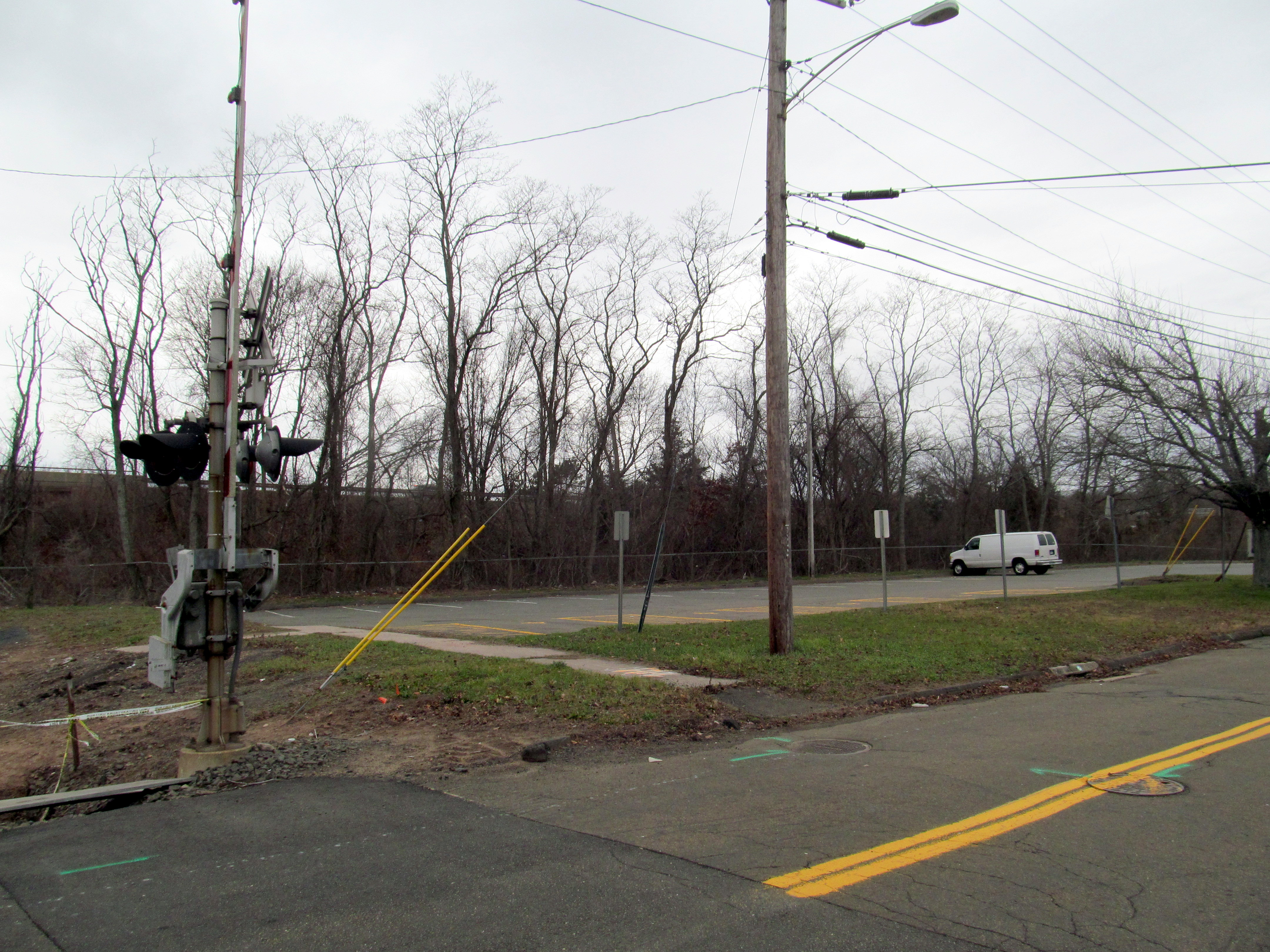 Park-and-ride lot at the former North Haven Amtrak station in December 2015. The lot will be reused for train station parking when the station is rebuilt for Hartford Line use.